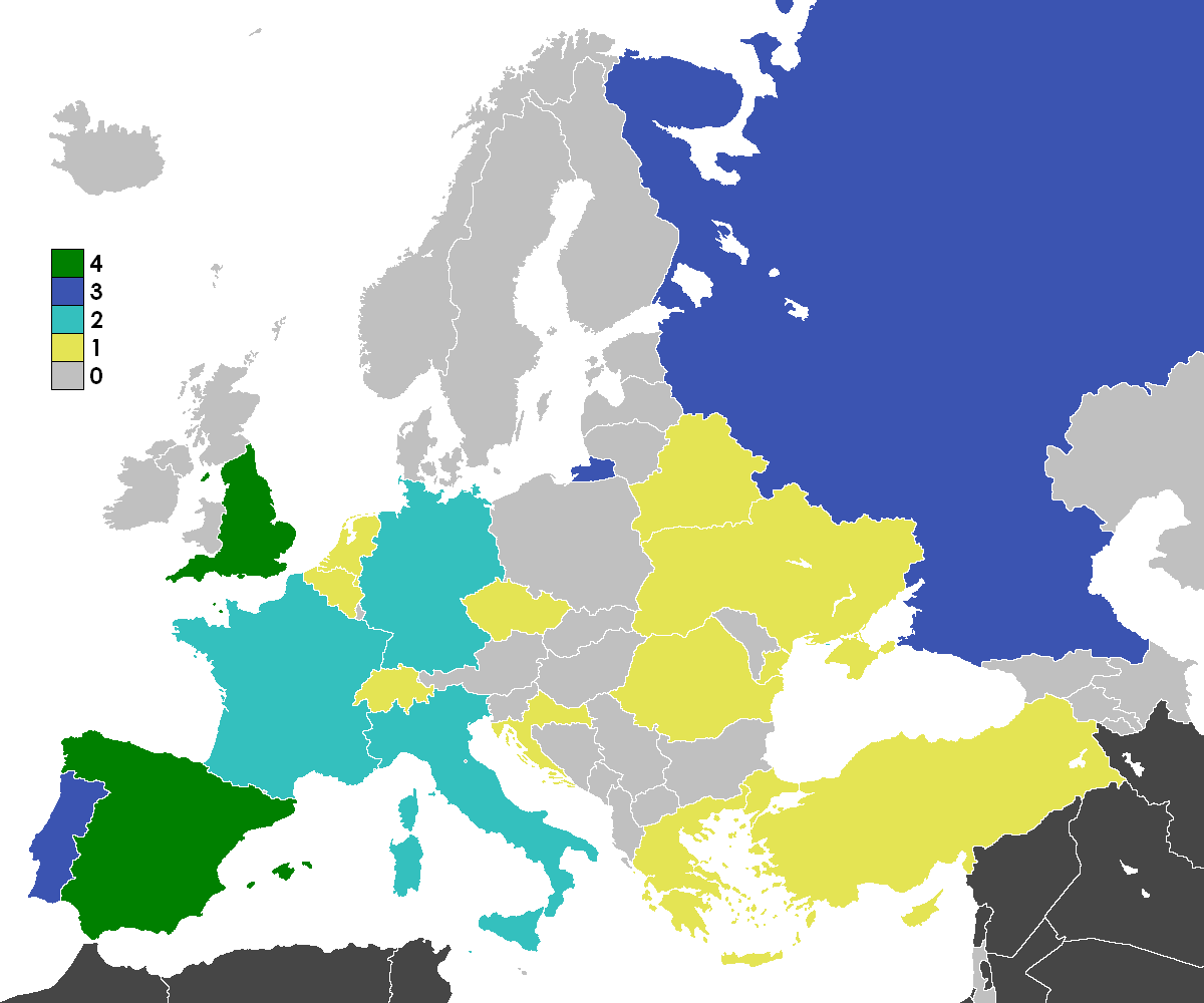 Map of countries which have a representative in group stage at the UEFA Champions League. 4 representatives 3 representatives 2 representatives 1 representative no representative not UEFA member